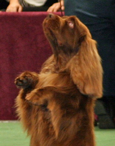 End of the night at Westminster when Stump the Sussex Spaniel won Best in Show. 2/2009